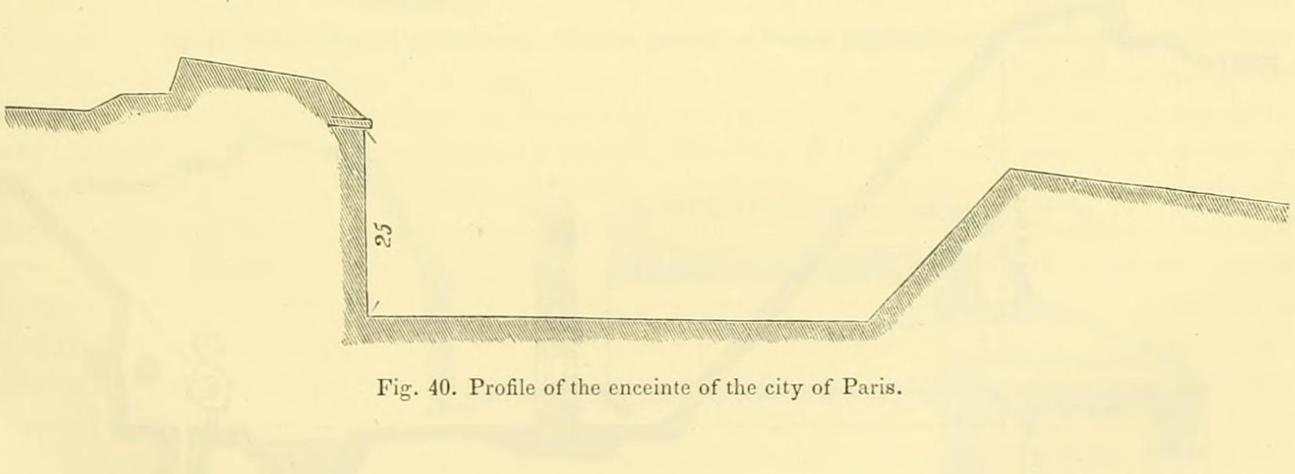 Profile or cross-section of the enceinte of Paris, also known as the Thiers Wall or Enciente de Thiers, which was built in 1840-45. On the left is the earthen rampart with a masonry scarp wall. The ditch is in the centre and on the right is the angled counterscarp with the glacis sloping away. From the "Report on the Art of War in Europe in 1854, 1855, and 1856" by Major Richard Delafield (1798-1873).